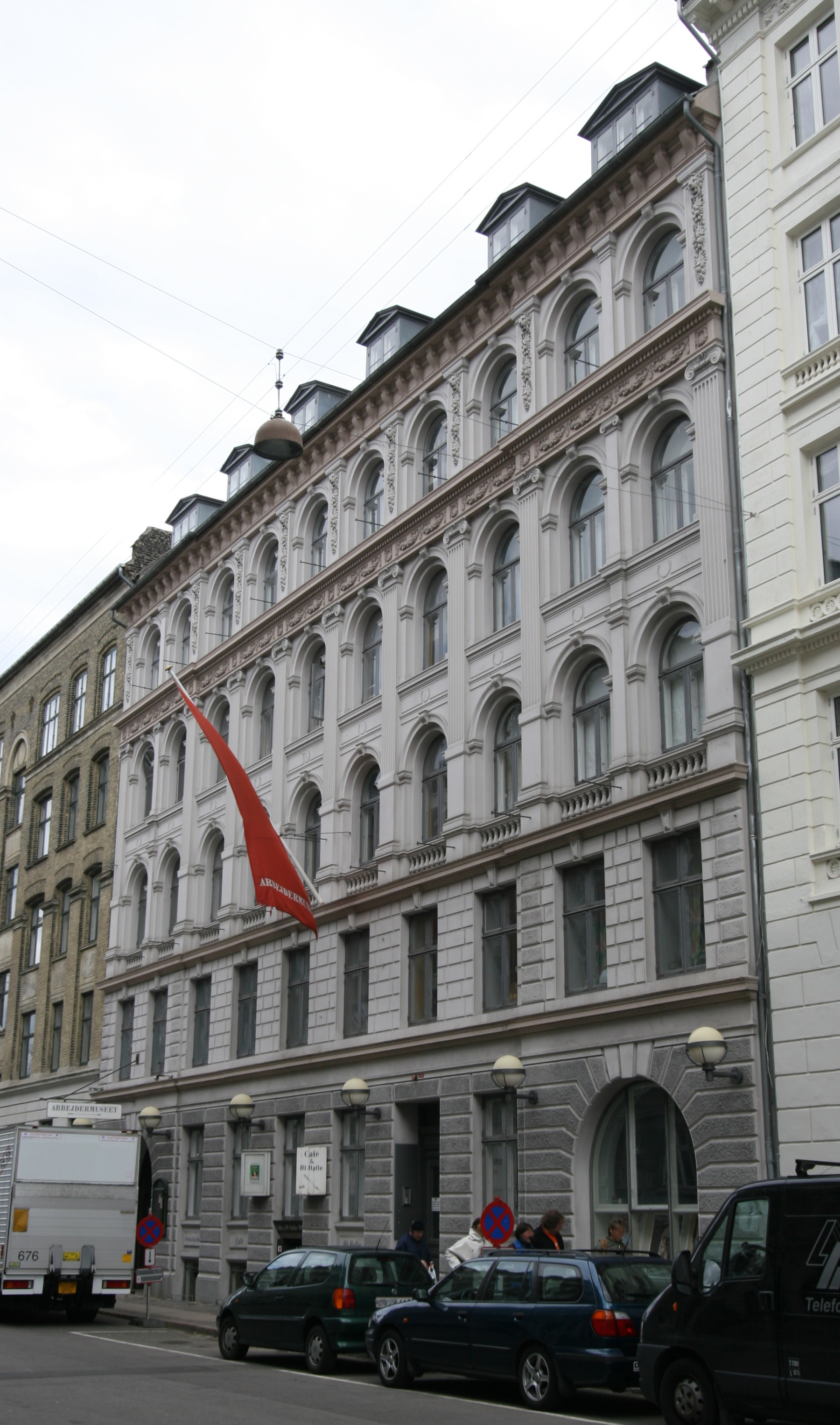 The Workers Museum